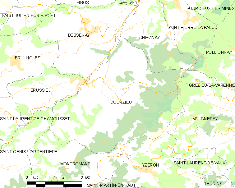 Map of French municipality